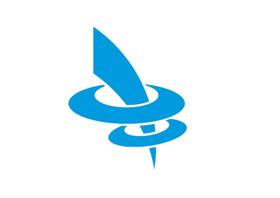 Flag of Kiso Nagano